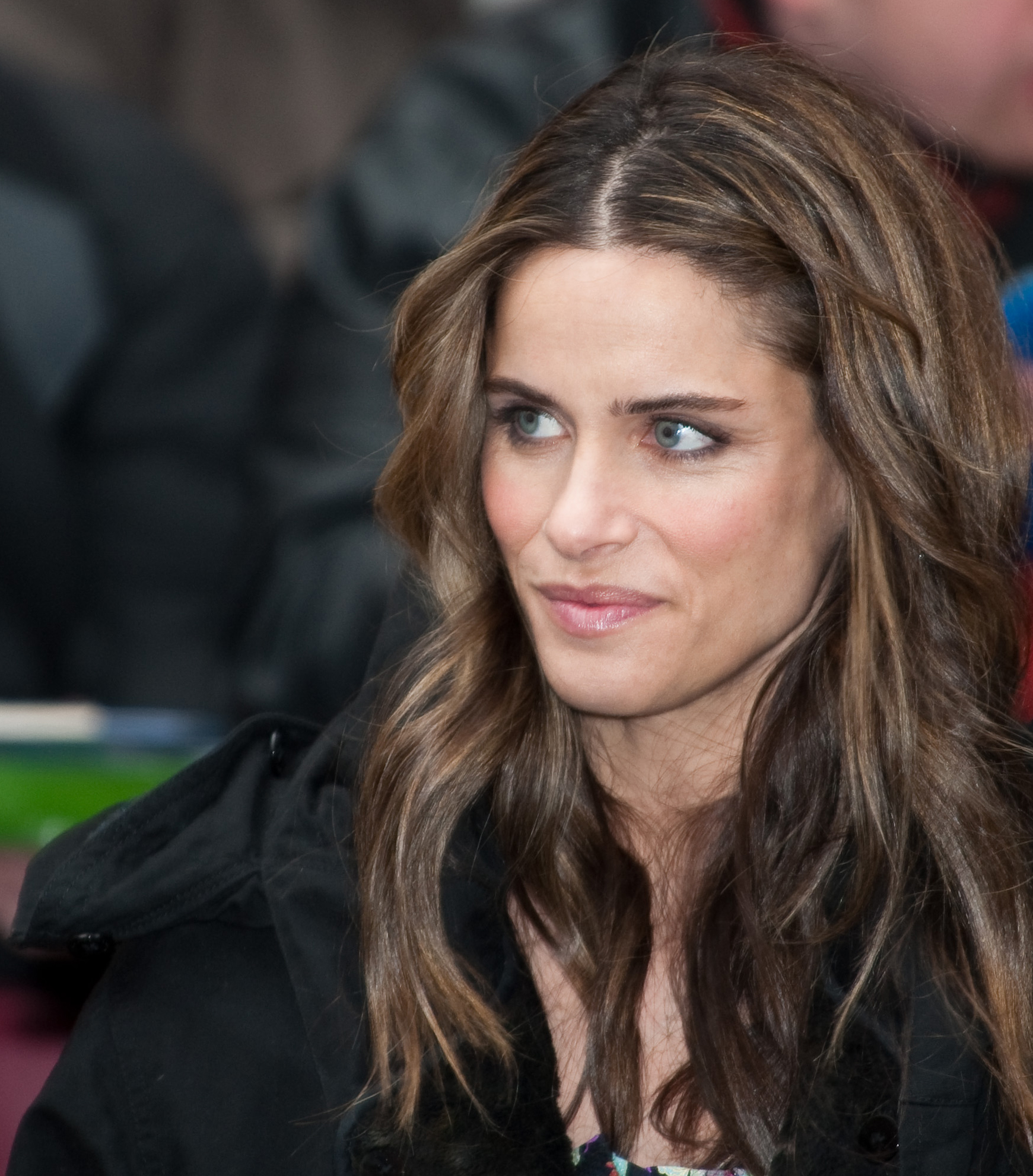 Actress Amanda Peet leaving the press conference for Please Give